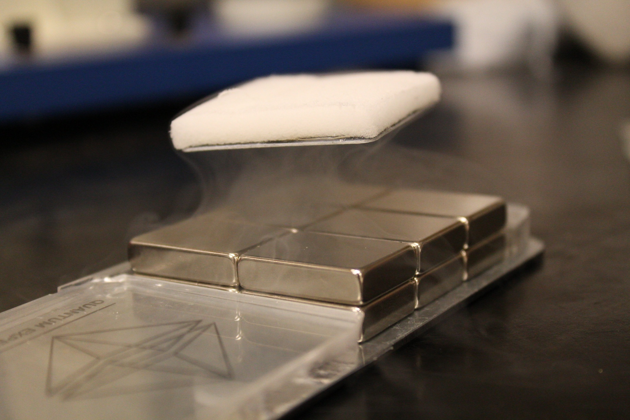 A ceramic tile and its superconducting underside levitate over some very powerful magnets